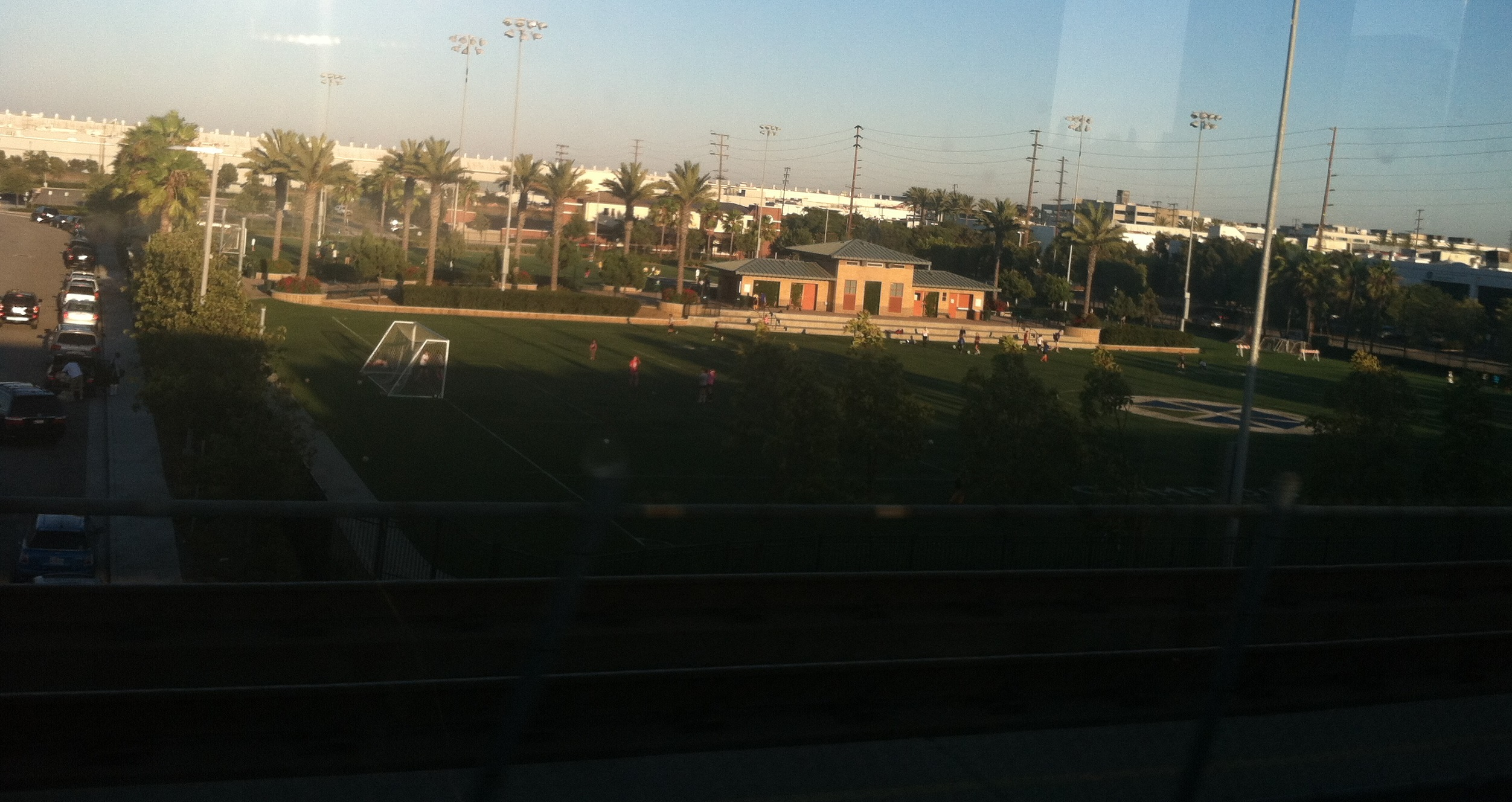 Campus el segundo as seen from the Mariposa/Nash station.